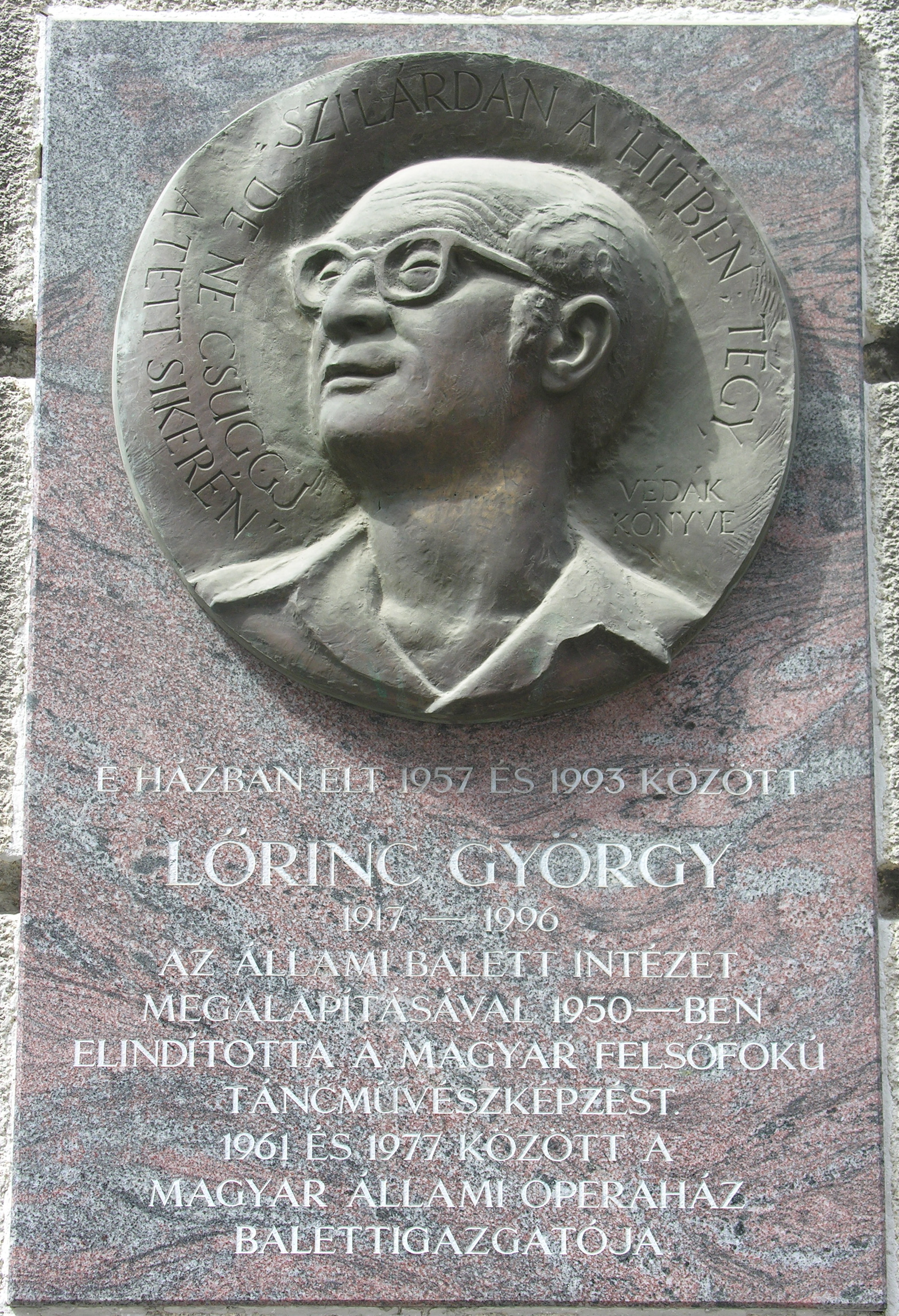 Commemorative plaque of György Lőrinc in Budapest District XIII, Tátra Street No 20/b